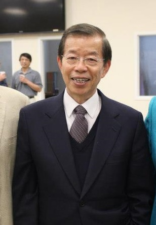 Frank Chang- Ting Hsieh's speech photo at Taiwanese Church of Greater Washington in 2013